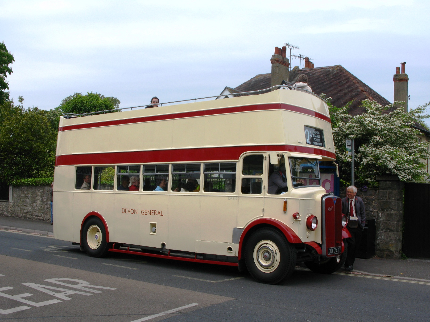 Preserved Devon General open top AEC Regent 210 (OD 7497) revisits its old routes at St Marychurch, Torbay, Devon, England.